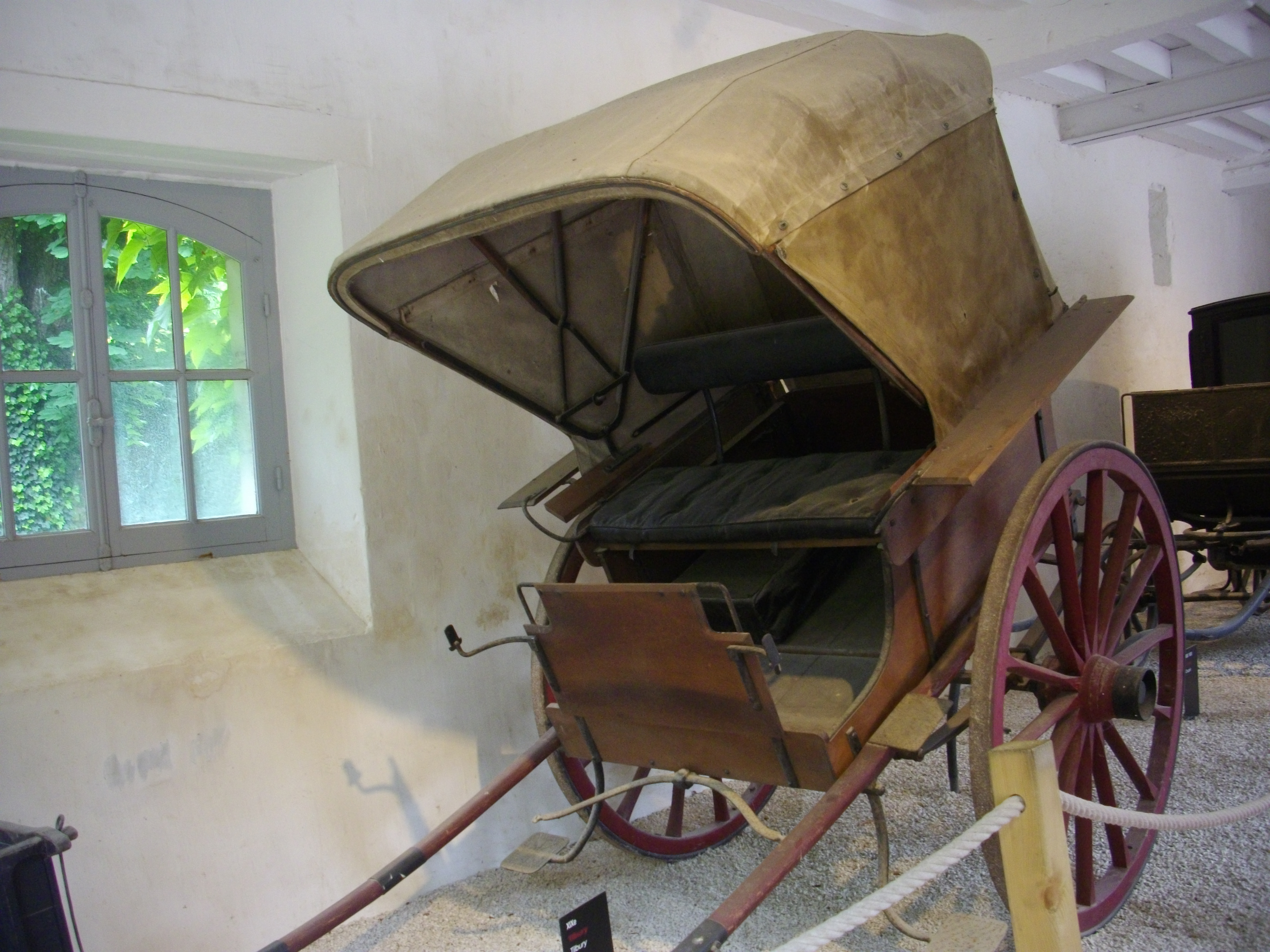 Coupling galery of the castle of Chenonceau (Indre-et-Loire, France) : tilbury .